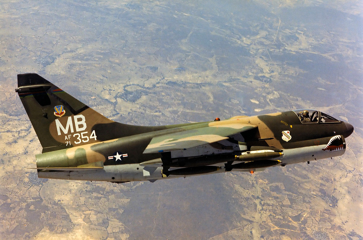 Ling-Temco-Vought A-7D-11-CV Corsair II 71-0354 This was the Wing Commander's plane of the 354th Tactical Fighter Wing, Myrtle Beach AFB, South Carolina. 1972: Delivered to 355th Tactical Fighter Wing, Davis-Monthan AFB, AZ (c/n D-265) Transferred to 354th Tactical Fighter Wing, Myrtle Beach AFB, SC, 1972 as Wing Commander's aircraft Transferred to 152d Tactical Fighter Squadron, AZ Air National Guard, 1977 Transferred to 188th Tactical Fighter Squadron, NM Air National Guard, 1979 Transferred to AMARC as AE0160 Jun 5, 1992. Disposition:16-APR-98 / To Fritz Enterprises, Taylor, MI. (Actually to HVF West yard, Tucson). Scrapped. On 15 August 1973, this aircraft, piloted by Col William D. Curry Jr, Commander, 354th TFW (Deployed) took off from Korat RTAFB, Thailand. Col Curry dropped the last bomb by the United States Air Force of the Vietnam War. The bomb was dropped attacking Khmer Rouge forces just to the north of Phnom Penh, Cambodia.